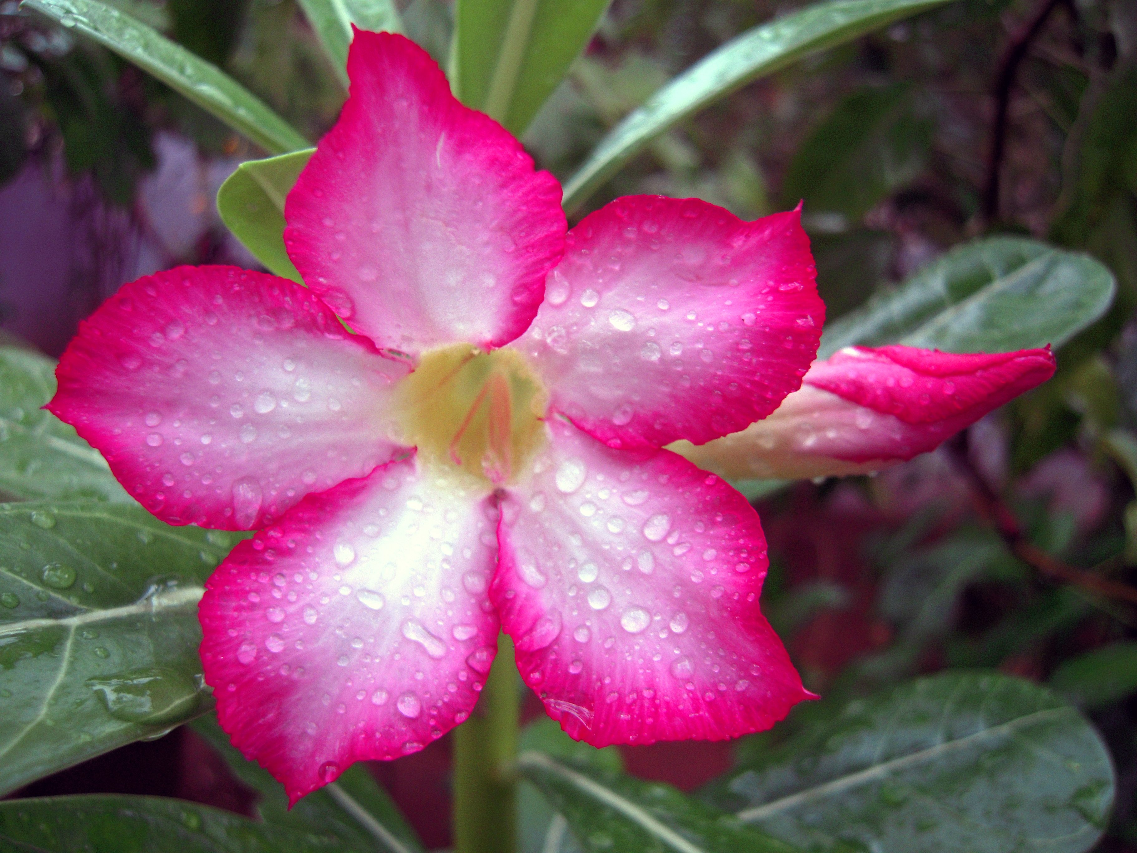 Adenium obesum. Also known by the names "Sabi Star, Kudu, Mock Azalea, Impala Lily & Desert-rose"